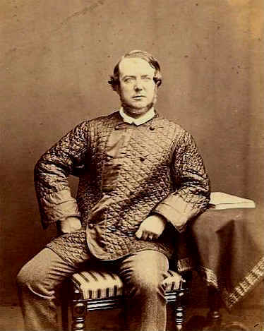 Michael William Balfe (1808–1870), Irish composer of the opera The Bohemian Girl